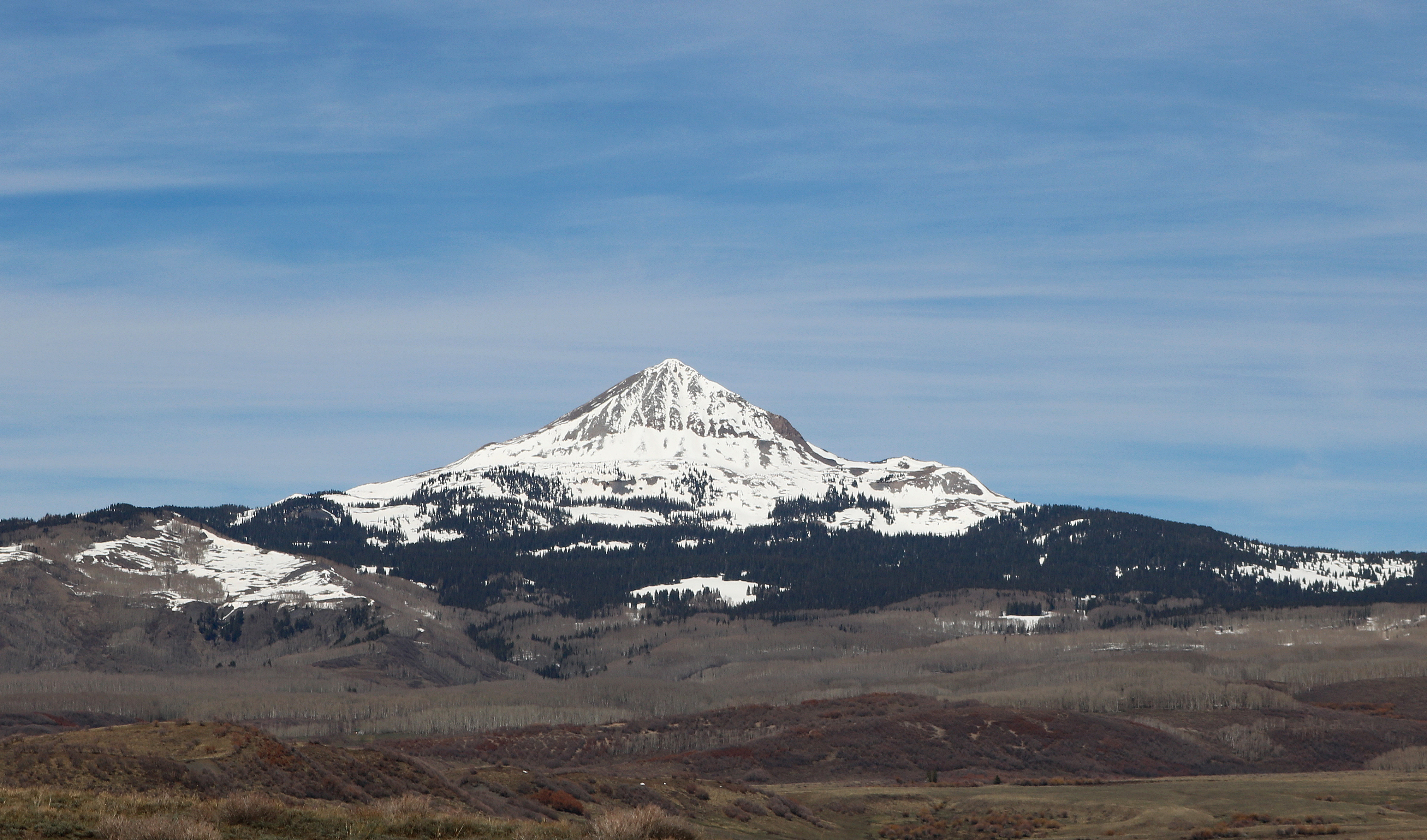 A view of Lone Cone, a mountain in southwestern Colorado. The view is from the south at Groundhog Reservoir in Dolores County.